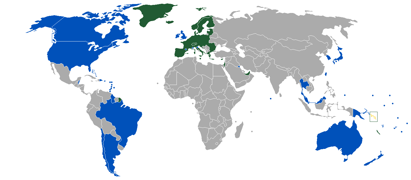 Visa policy of Solomon Islands Solomon Islands Visa-free access Visitor's permit on arrival